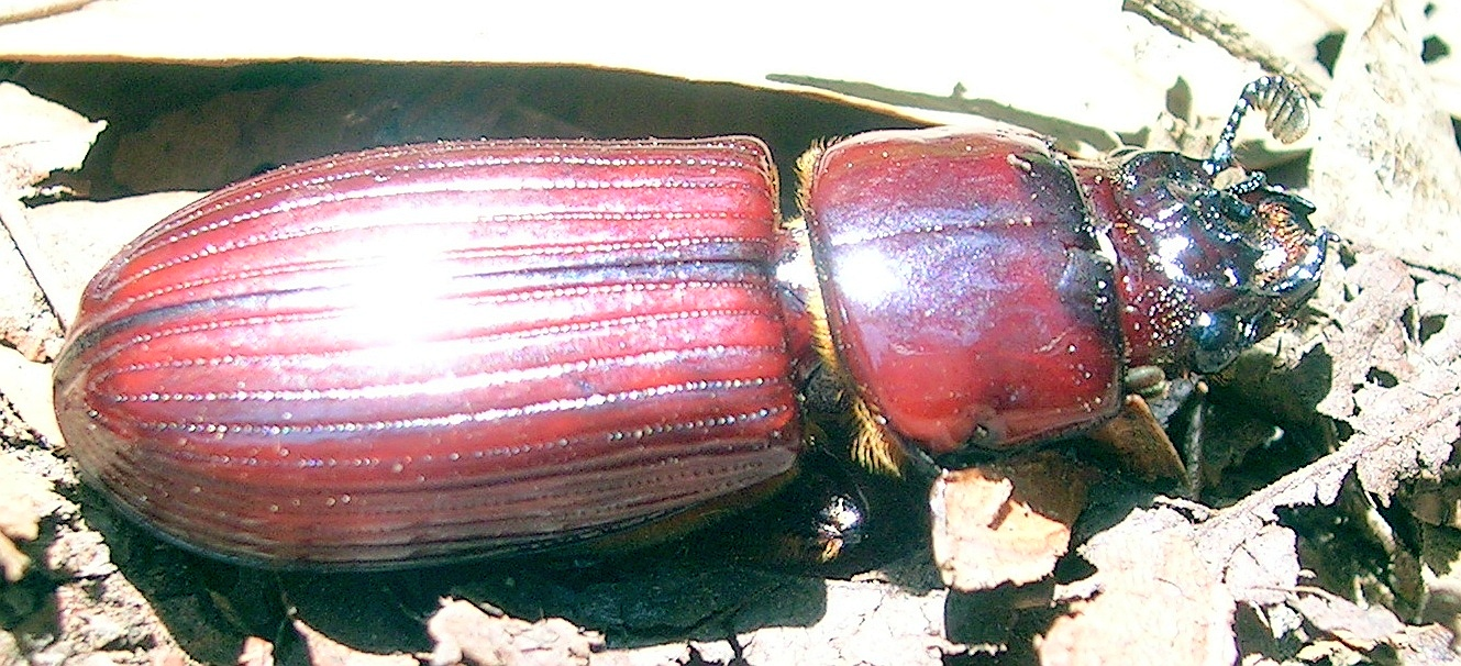 Passalidae beetle from the Western Ghats